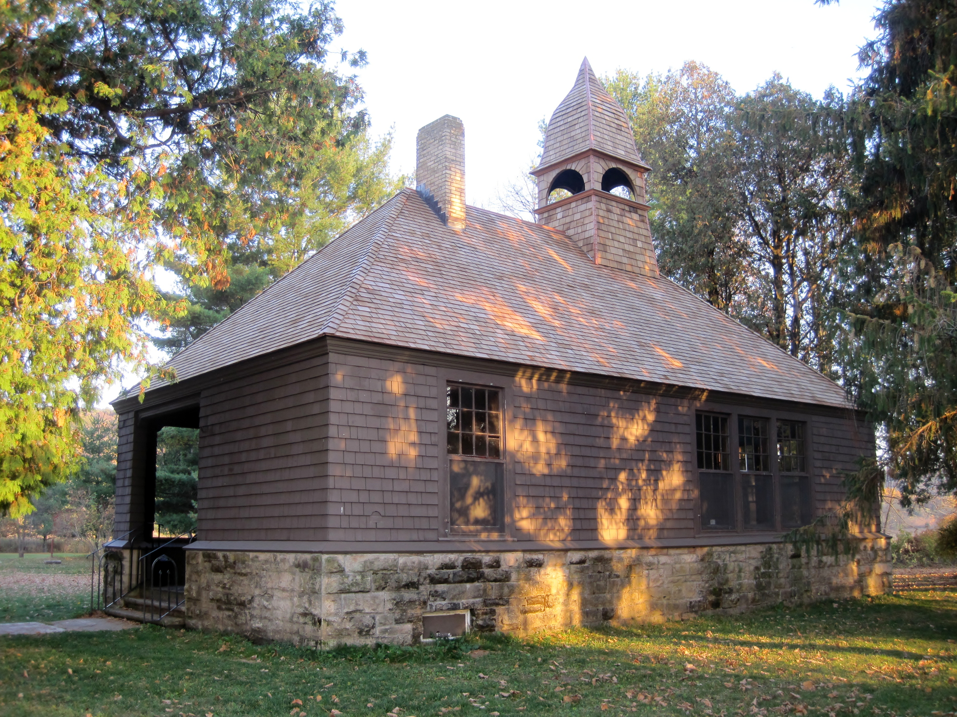 I (Teemu08 (talk)) took this image in October, 2011